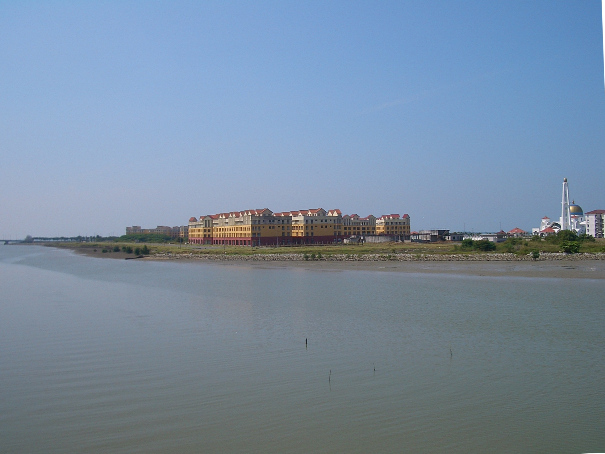 Pulau Melaka, seen from the Melaka pleasure pier